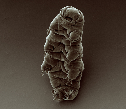 Scanning electron micrograph of an adult tardigrade (water bear).